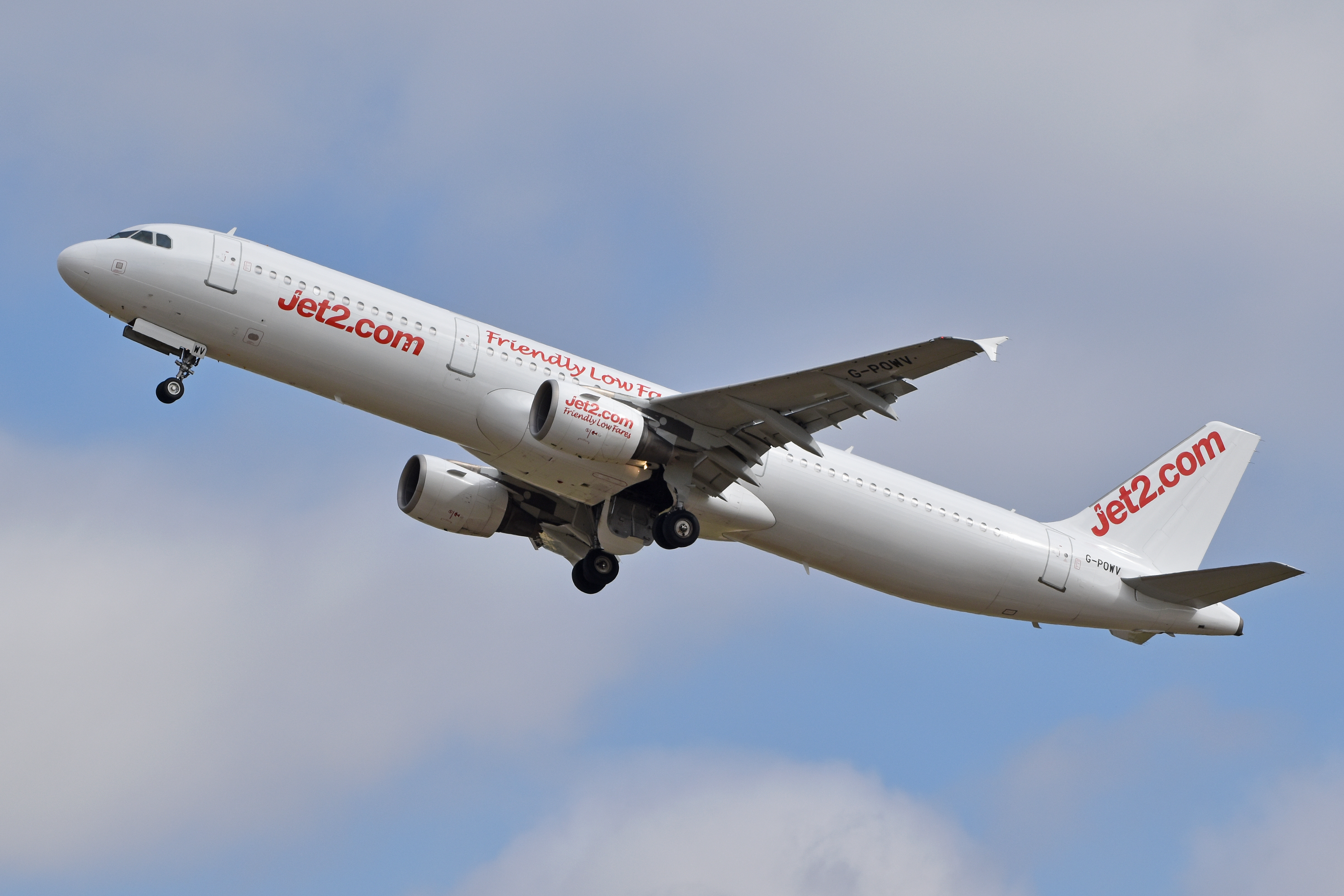 c/n 3749. Built 2008. Owned by Titan Airways but operating for Jet 2 and seen departing on flight LS1473 / EXS48WB to Ibiza. London Stansted, Essex, UK. 10th July 2018